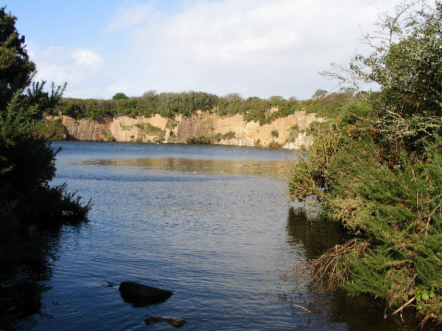 Sheffield Granite Quarry. Last worked in 1939 by the Snell family who were monumental masons from Newlyn.I wish to dedicate this photo to my old school teacher Dr.Silvester Snell.